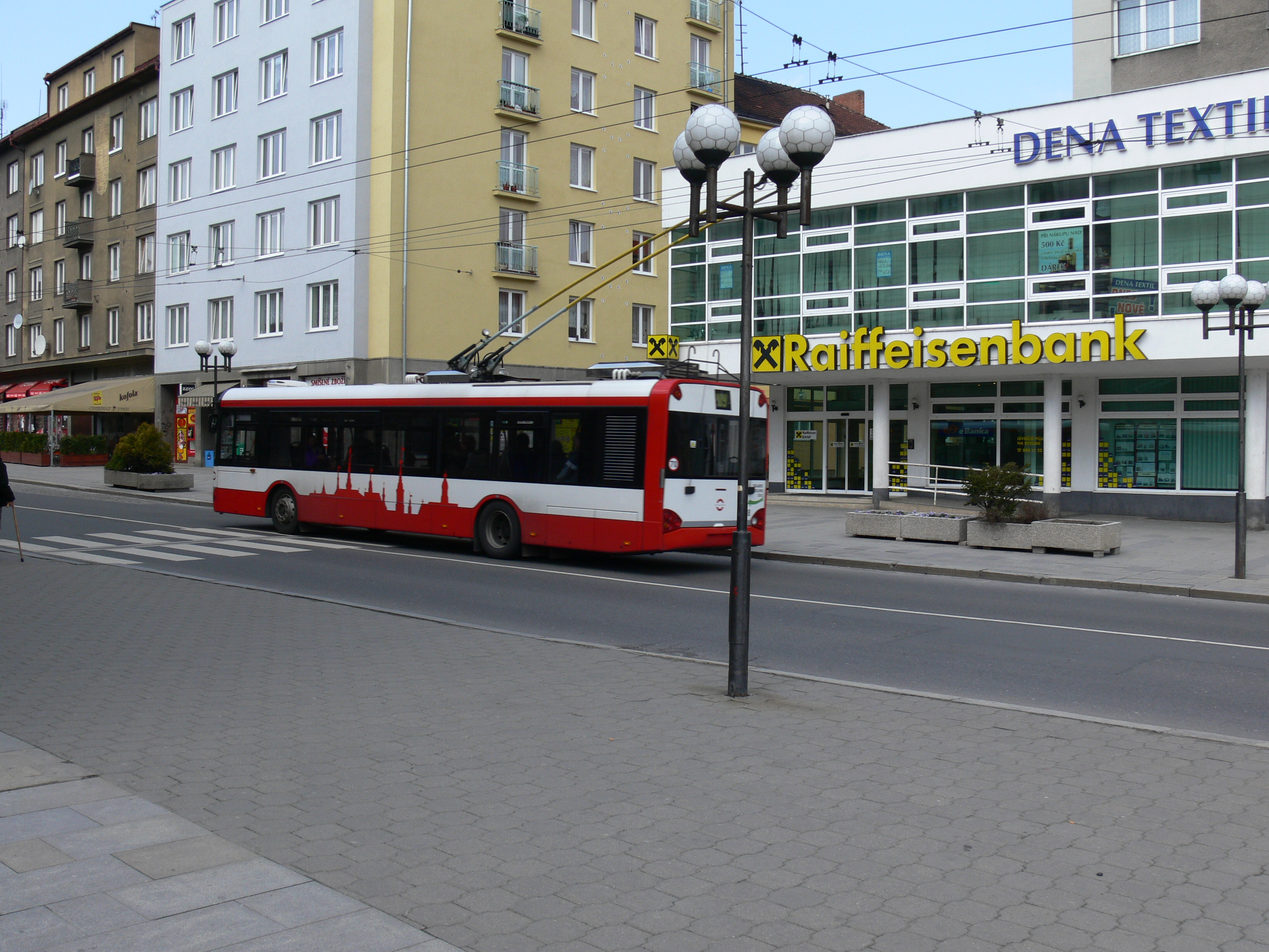 Trolleybus in Opava, Czech republic